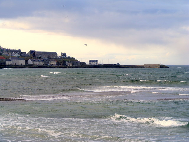 Banff Bay